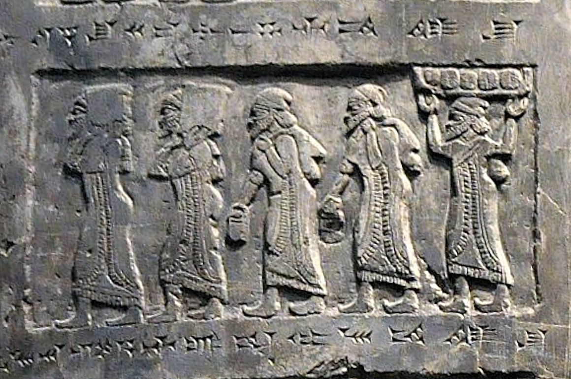 Black Obelisk side 4 Jewish delegation